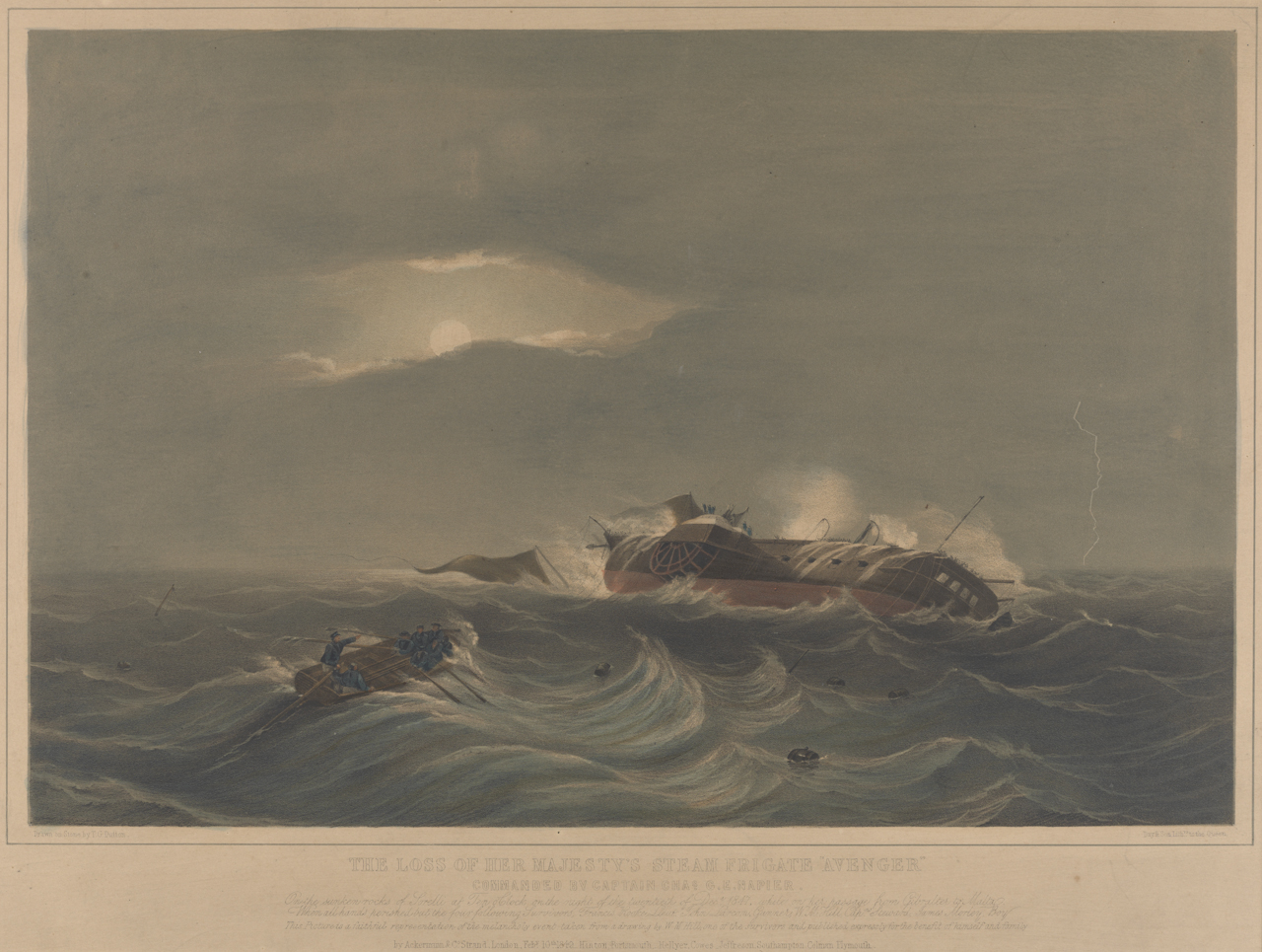 The Loss of Her Majesty's steam frigate Avenger... on the sunken rocks of Sorelli 20 Dec 1847 while on her passage from Gibraltar to Malta... Inscribed: "The loss of Her Majesty's Steam Frigate 'Avenger' commanded by Captain Chas G. E. Napier. On the sunken rocks of Sorelli at Ten o'Clock on the night of the twentieth of Decr 1847, while on her passage from Gibraltar to Malta. When all hands perished but the four following Survivors, Francis Rooke Lieut., John Larcom Gunner, W M Hill Capns Steward, James Morley Boy. This Picture is a faithful representation of the melancholy event, taken from a drawing by W M Hill, one of the survivors and published expressly for the benefit of himself and family". Hand-coloured. Medium includes gum arabic. The Loss of Her Majesty's steam frigate Avenger... on the sunken rocks of Sorelli 20 Dec 1847 while on passage from Gibraltar to Malta...